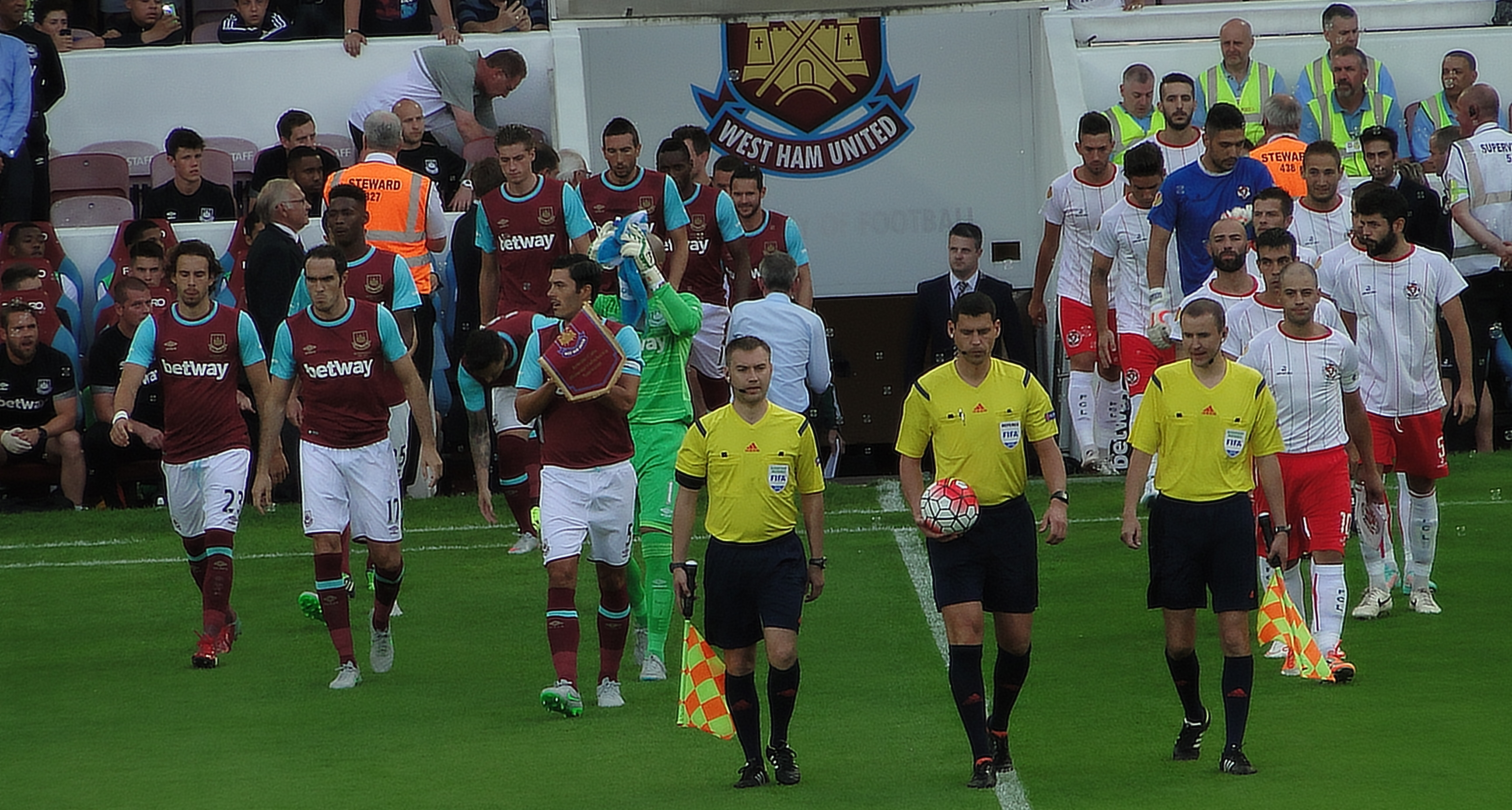 The players of West Ham United and FC Lusitans enter the pitch before their Europa League match, Boleyn Ground, 2 July 2015